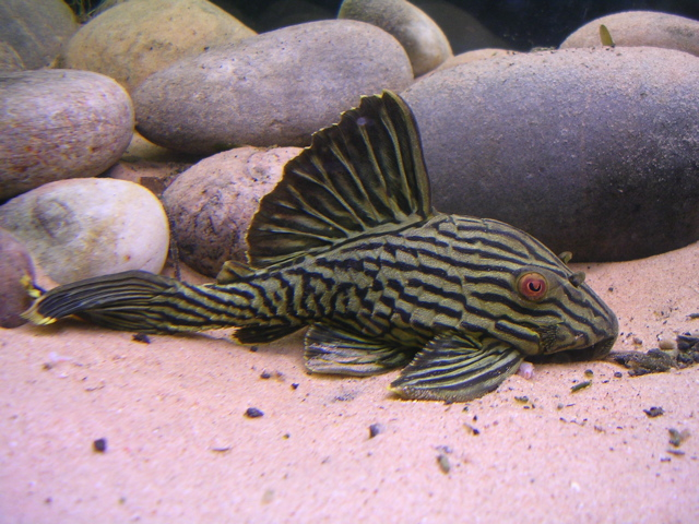 Panaque nigrolineatus, aquarium specimen, about 11 years old, 16 cm long. This fish has been identified as P. nigrolineatus from the Columbian/Venezuelan population by Panaque researcher Hirofumi Nonogaki. Please do not rename unless you have a better authority!